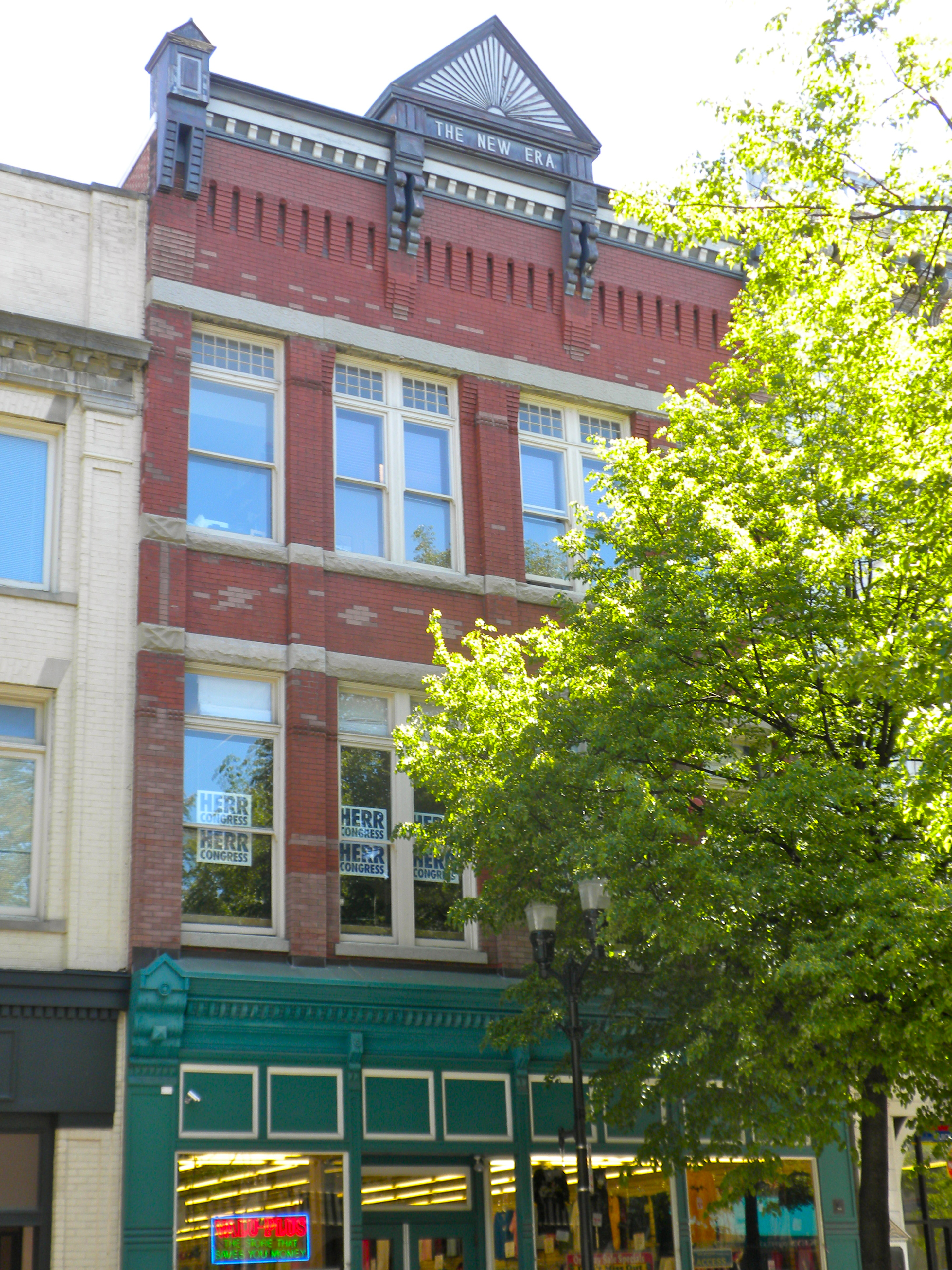 New Era Building on the NRHP since July 14, 1983. At 39–41 North Queen Street (there are a couple of other New Era buildings in Lancaster) in downtown Lancaster, PA